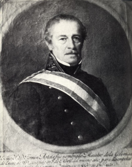 Spanish Politician Fermín Arteta